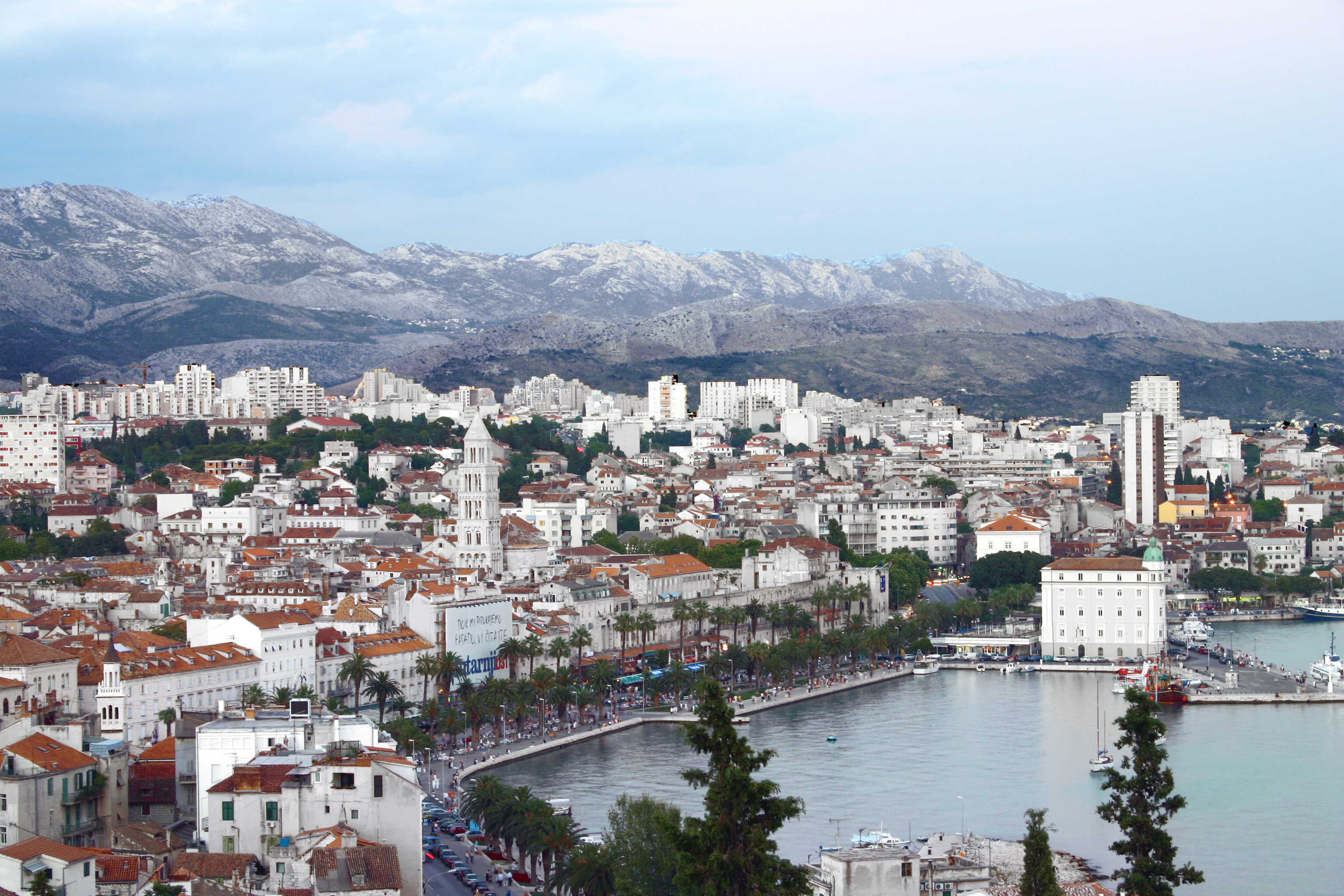 A photograph of the harbor in Split, Croatia. It was taken from lookout point on a small mountain overlooking the city. The photograph was taken on July 20, 2005 by Ryan Matzner and Rachel Pestik.